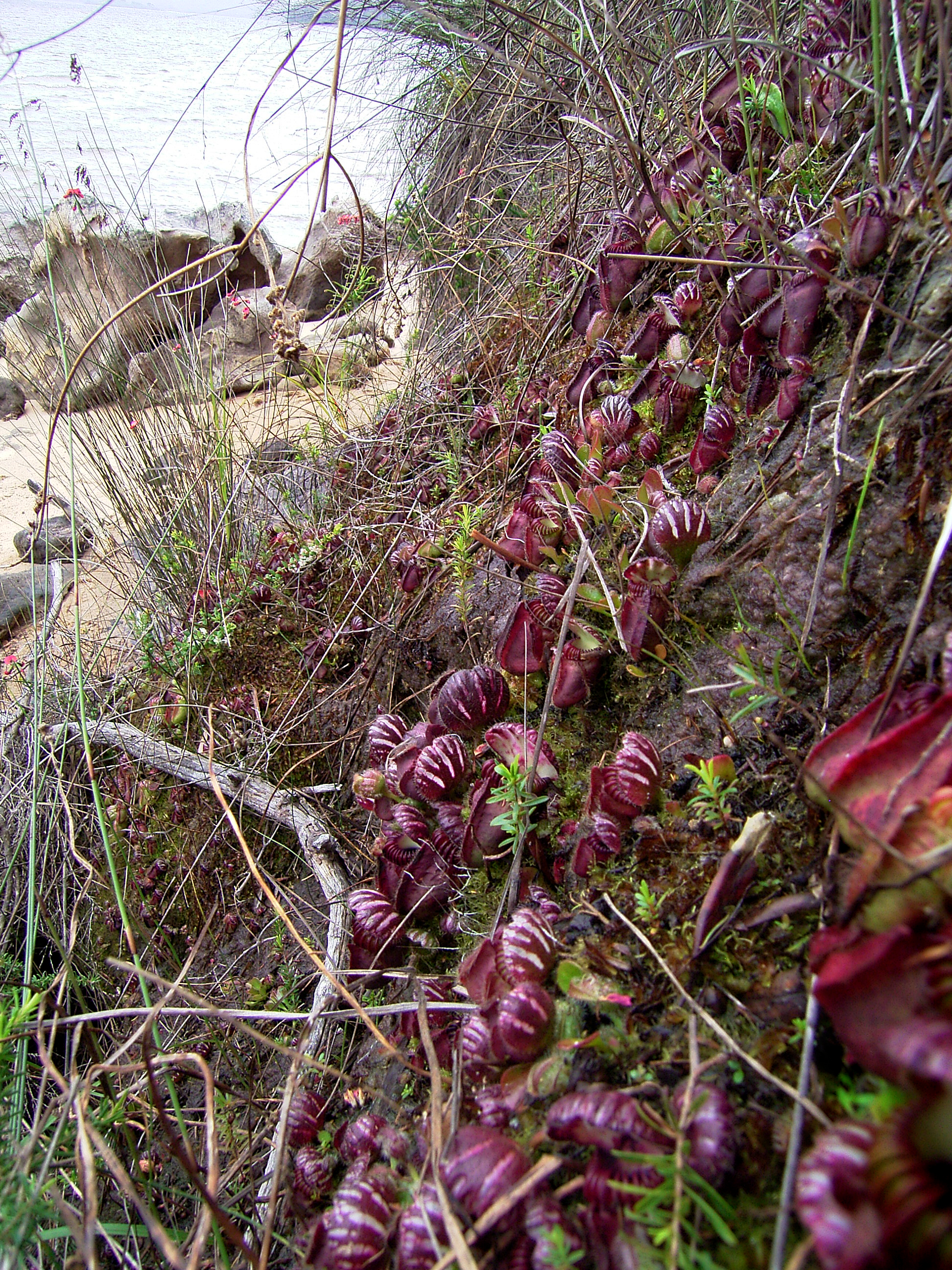 Cephalotus follicularis in situ / SW Australia Coast